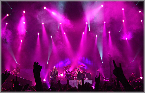 Nightwish live at Helsinki Hartwall Areena on September 19, 2009Hartwall 29